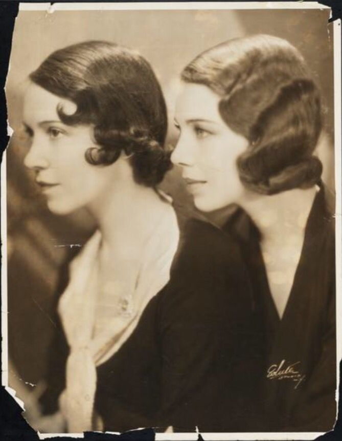 Adele Astaire and Tilly Losch in The Band Wagon (musical), 1931